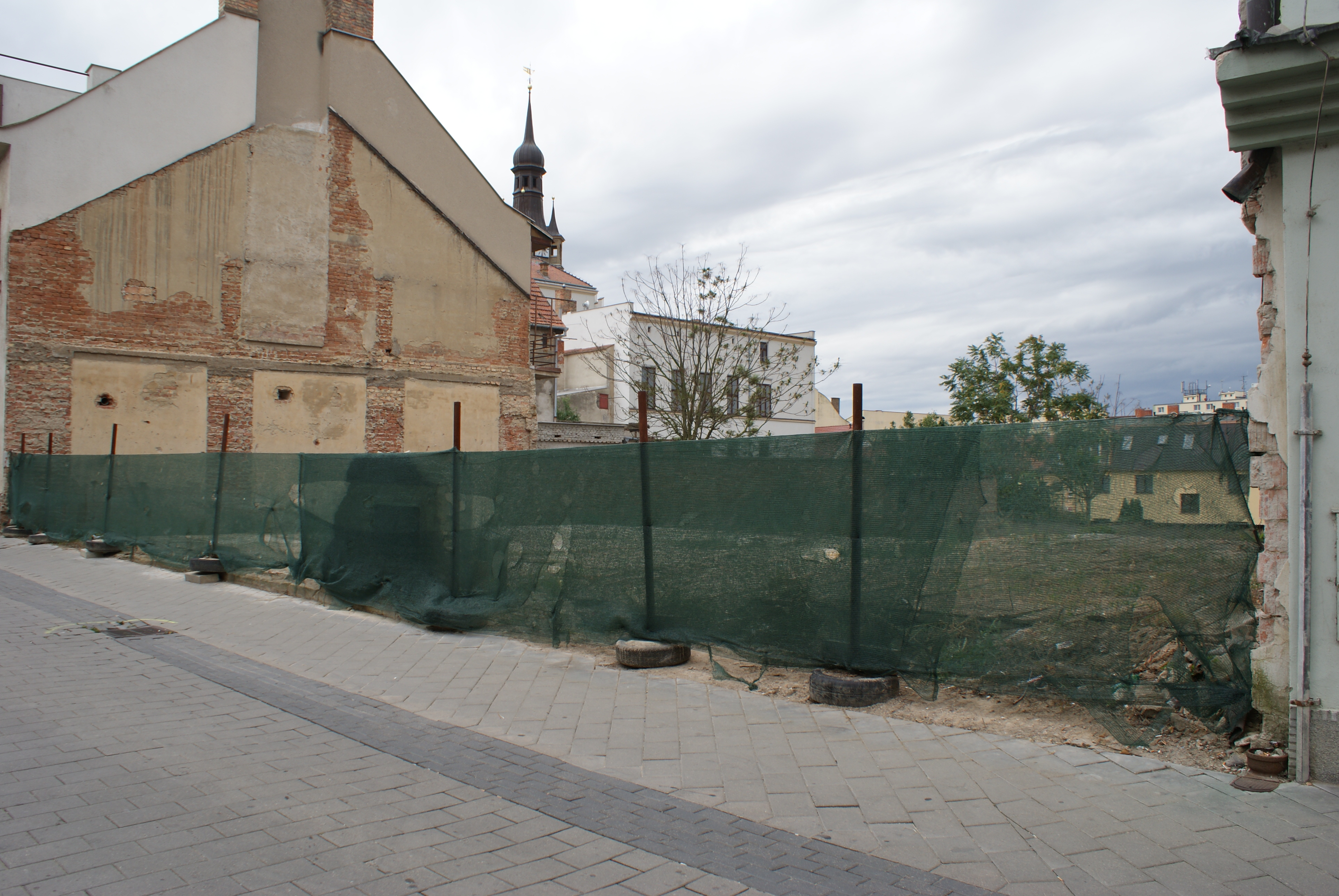 Former synagogue in Hustopeče, Břeclav district, Czech Republic.